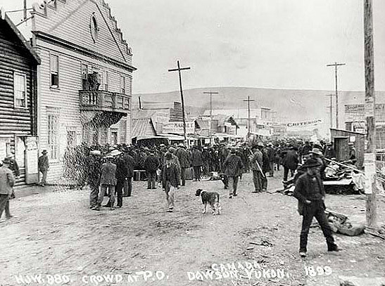 Crowd Assembled at Dawson Post Office, Yukon, 1899 Photo: Henry Joseph Woodside Public domain, National Library and National Archives of Canada, PA-016251 When the mail arrived, people would gather in front of the post office where they might wait for hours for their letters or packages. They sometimes had to come back the next day.